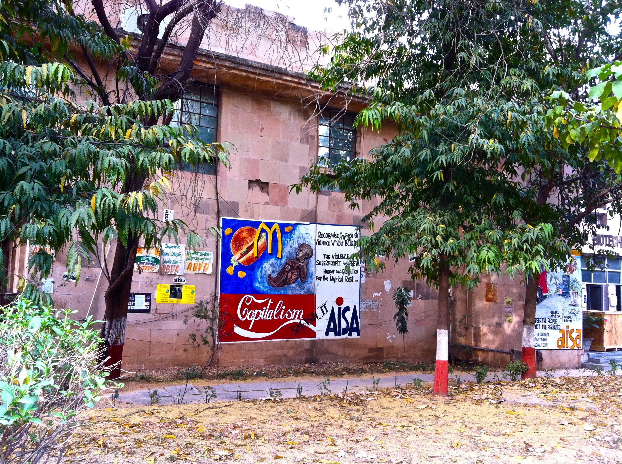 Biotechnology Department, Jawaharlal Neheru University, Delhi.